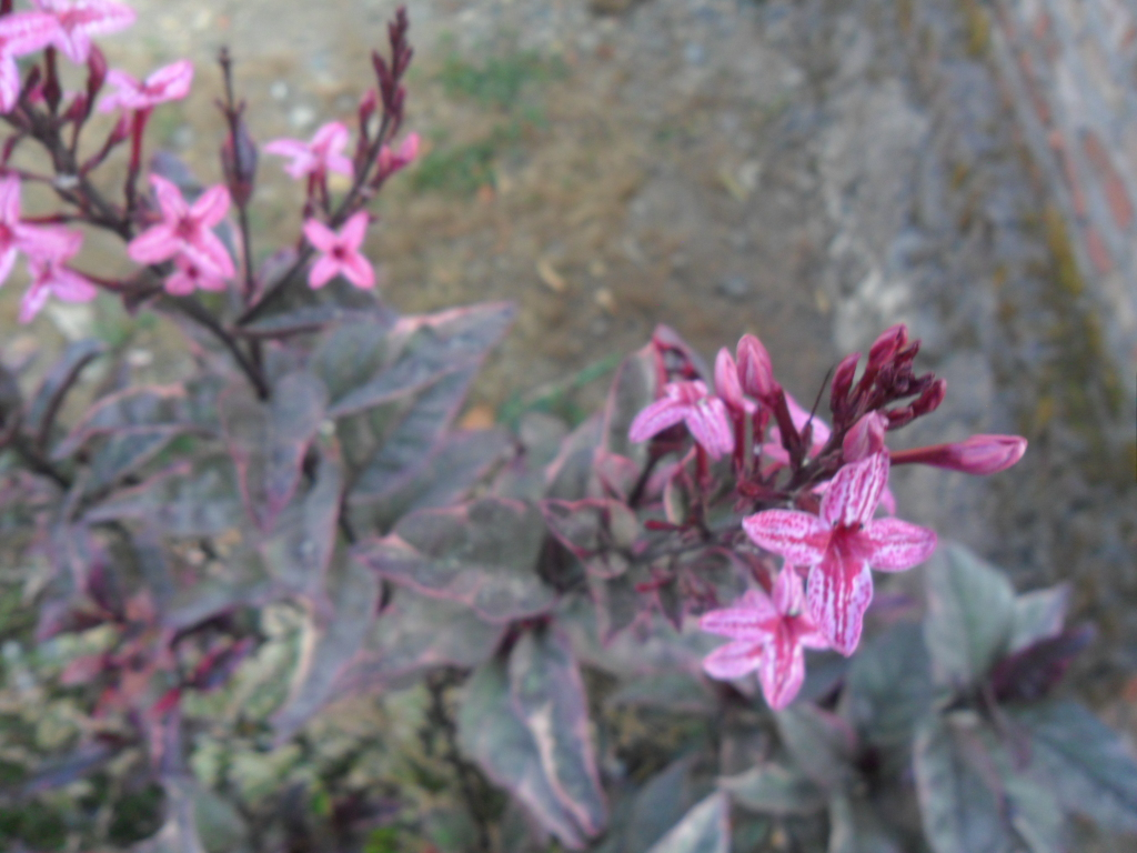 Pseuderanthemum